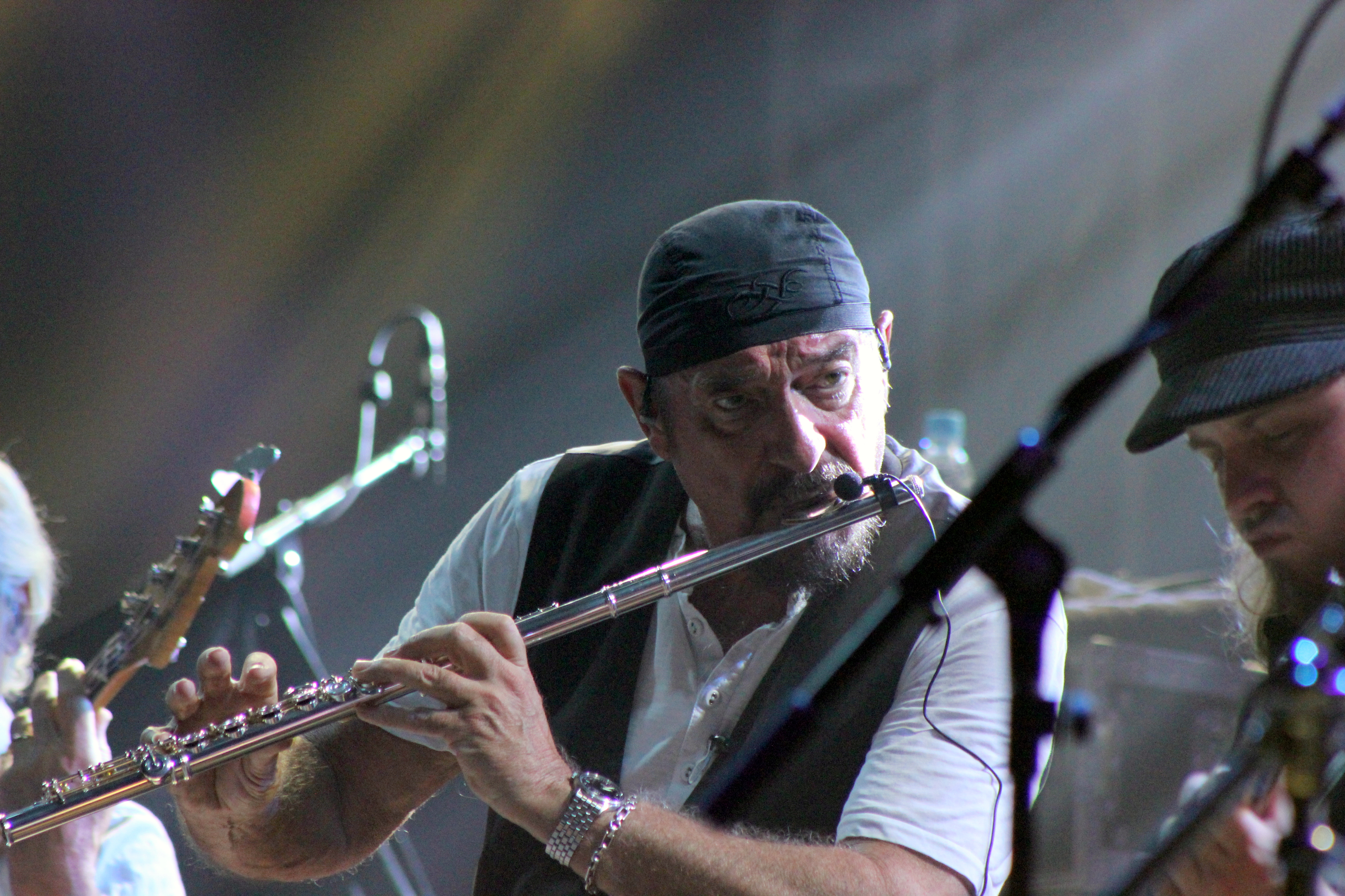 Ian Anderson, lead vocalist, flautist and acoustic guitarist of Jethro Tull, Munich 2014